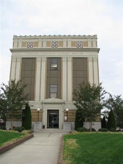 This is the Courthouse in Roxboro, NC